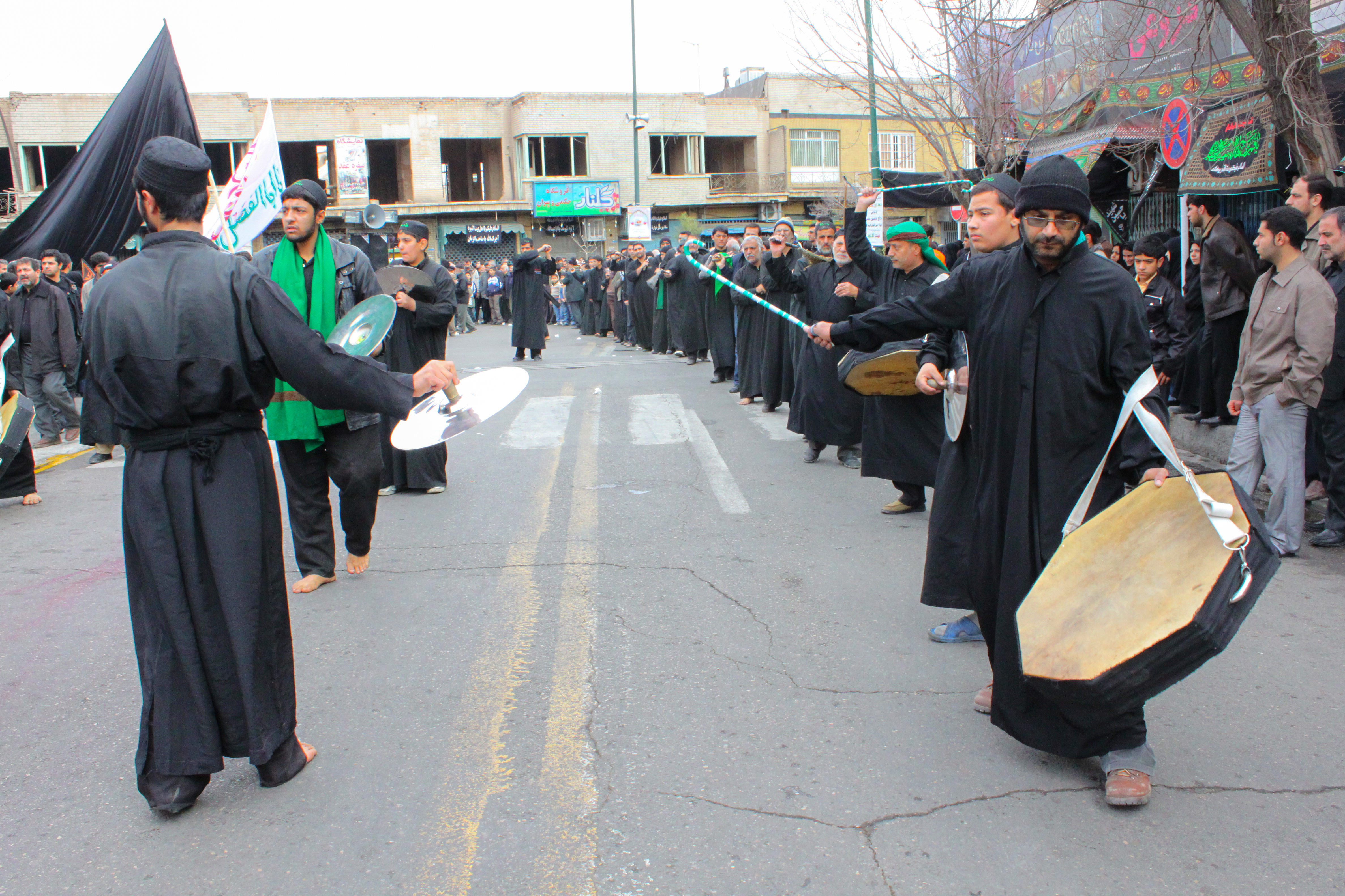 Tasu'a is the ninth day of Muharram and the day before Ashura. Several events occurred on this day, including: Shemr's entrance to Karbala, the granting of safe conduct for the children of Umm ul-Banin, preparation for war, and besieged day. The day is named[clarification needed] for Abbas ibn Ali because of his actions as commander in the army of Husayn ibn Ali.